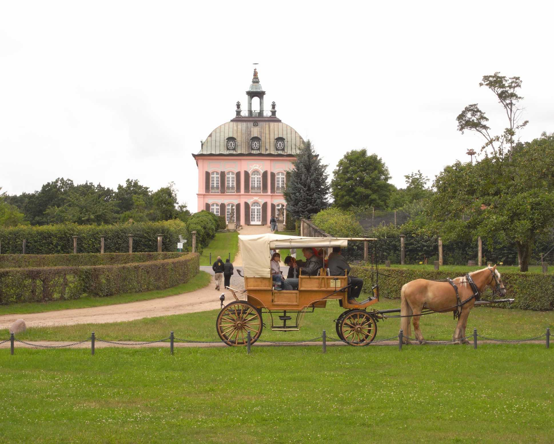 Fasanenschlösschen in Moritzburg (near Dresden), view from north